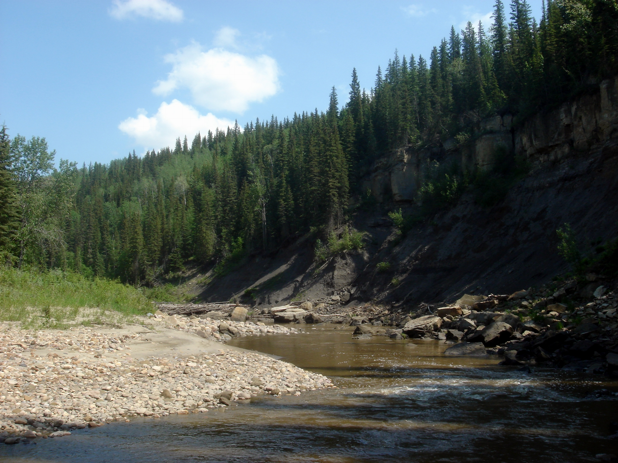 Pouce Coupe River at the Alberta/British Columbia border